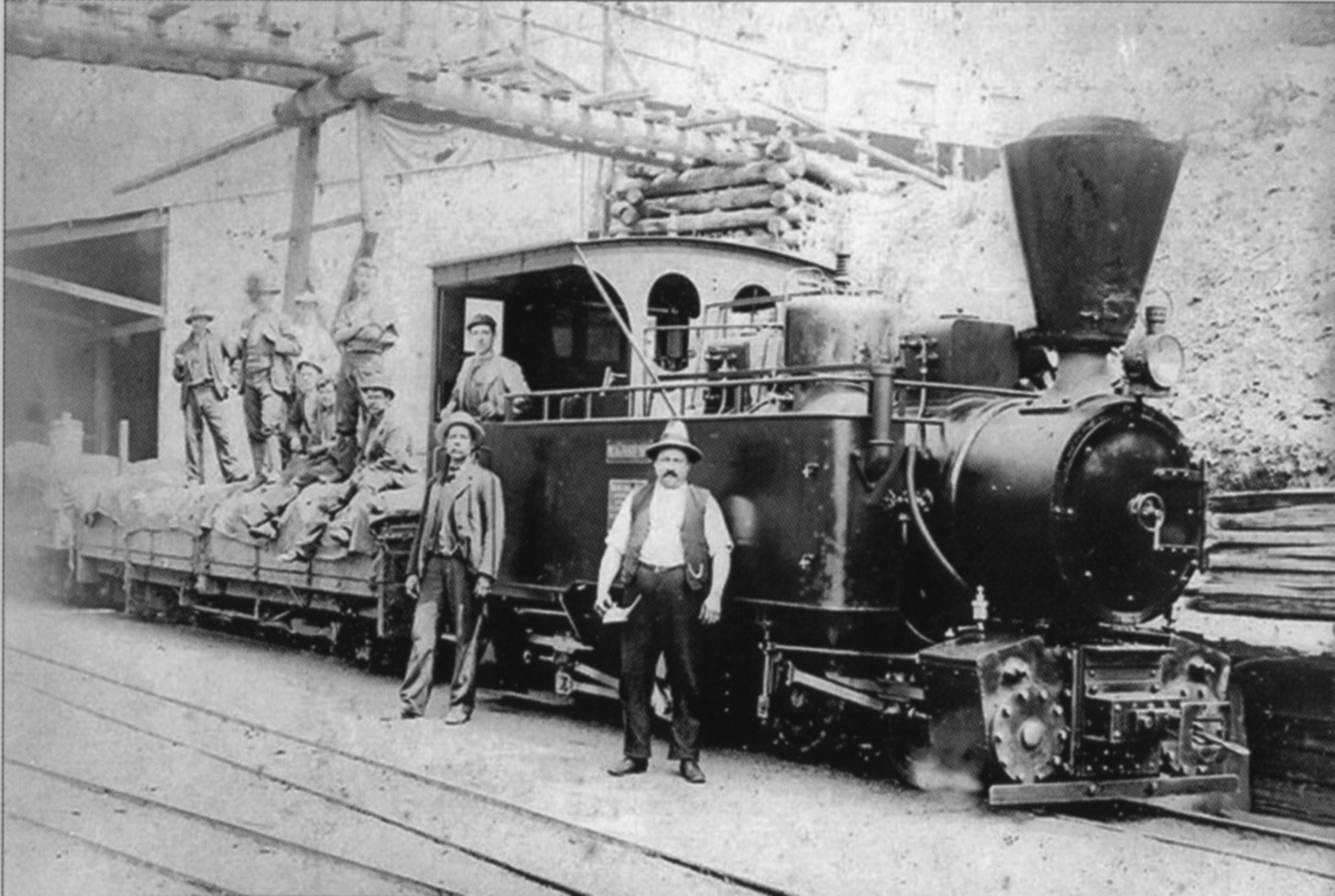 at Magnet, early 1900's